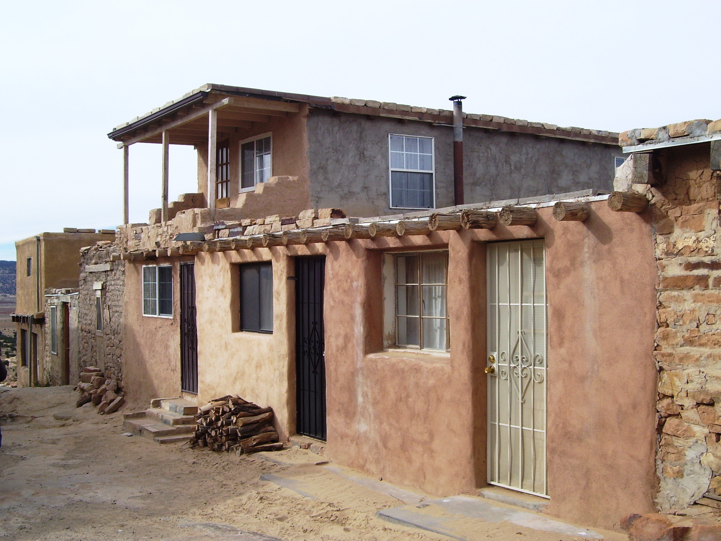 Buildings in the Sky City of Acoma Pueblo.